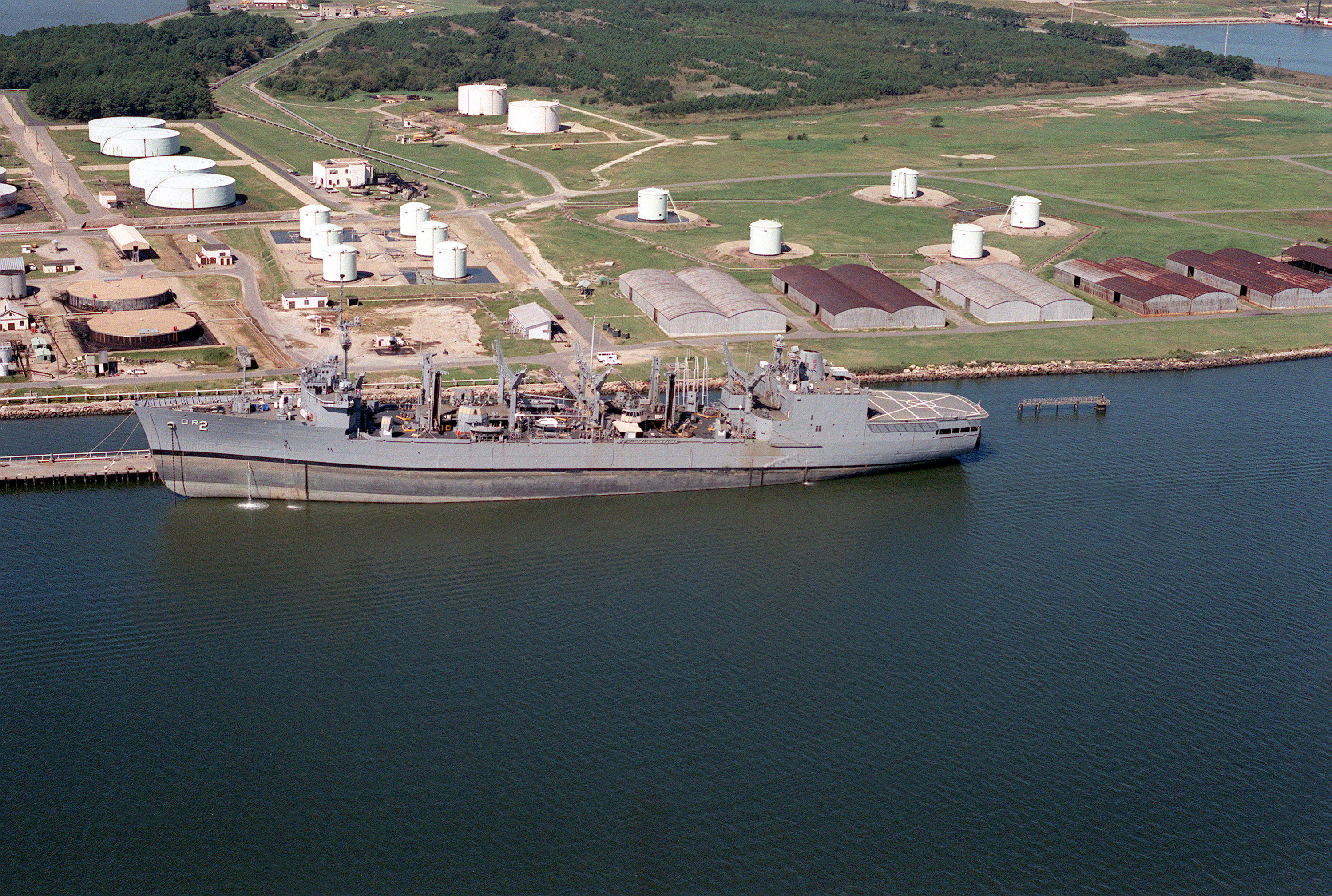 The U.S. Navy replensihment oiler USS Milwaukee (AOR-2) taking on fuel at Craney Island, Virginia (USA), on 25 September 1990.